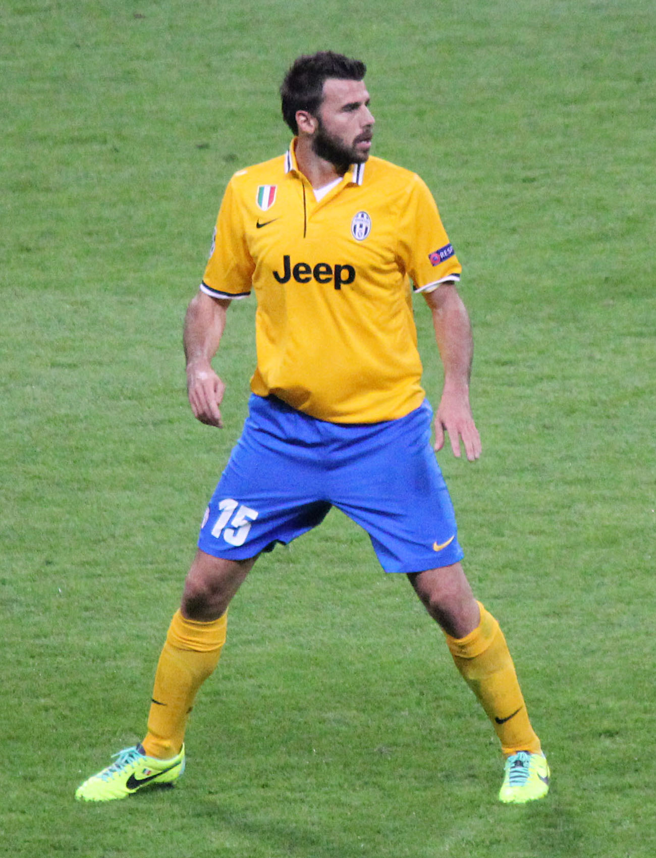 Madrid, 24 October 2013, Santiago Bernabéu Stadium. Real Madrid CF vs Juventus FC (2-1), 2013-14 UEFA Champions League group stage. Bianconeri's defender Andrea Barzagli.